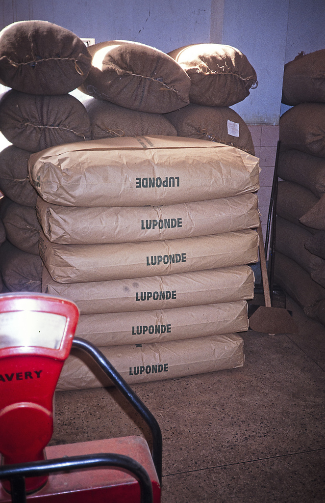 Tea with organic fertilizer is pruduced in Luponde, Ludewa District, Tanzania